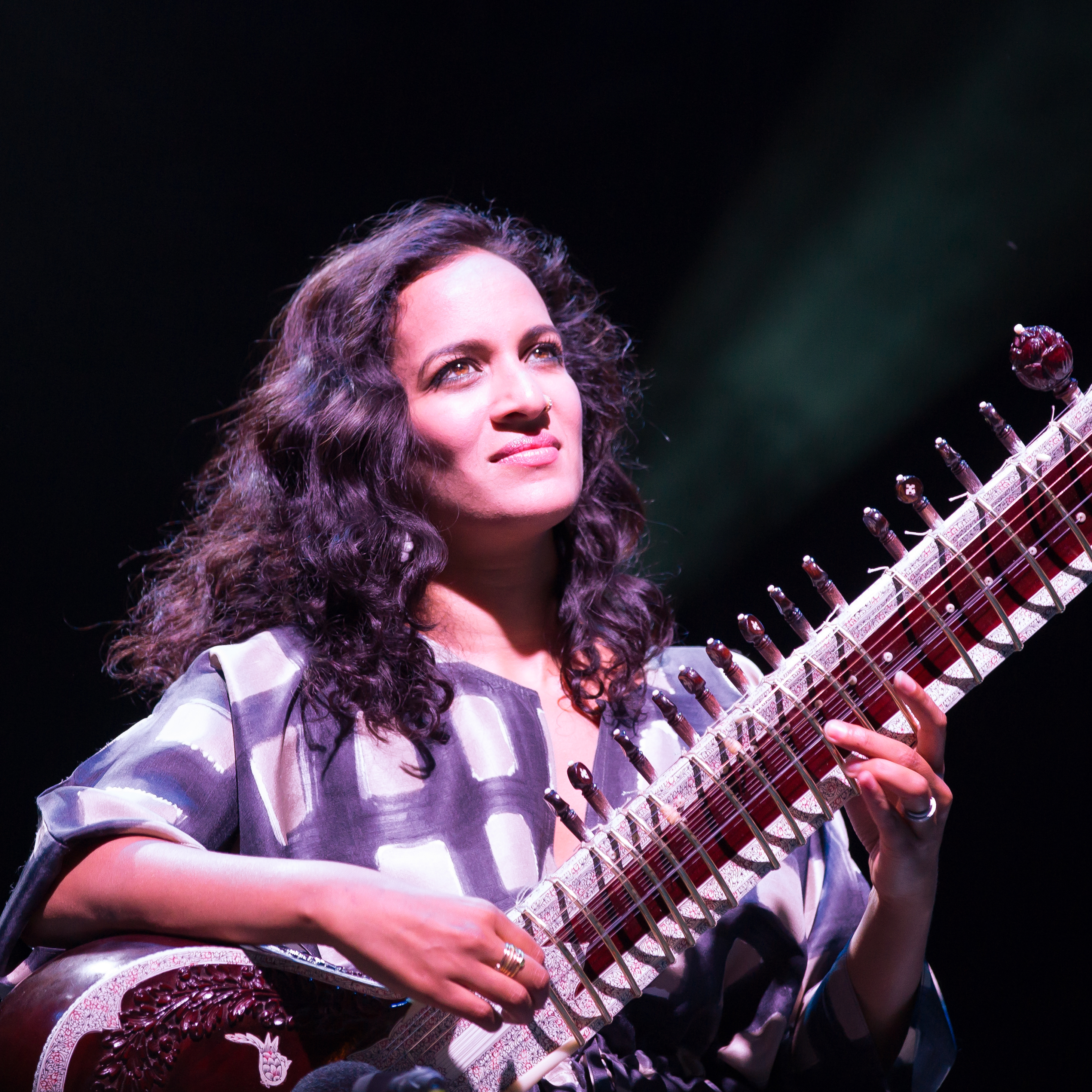 Sitar player Anoushka Shankar at the Rudolstadt-Festival 2016